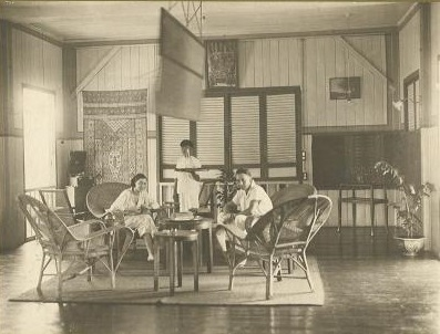 A French couple at their dining table, French Indochina c. 1930. A panka (punkah) is hanging from the ceiling.